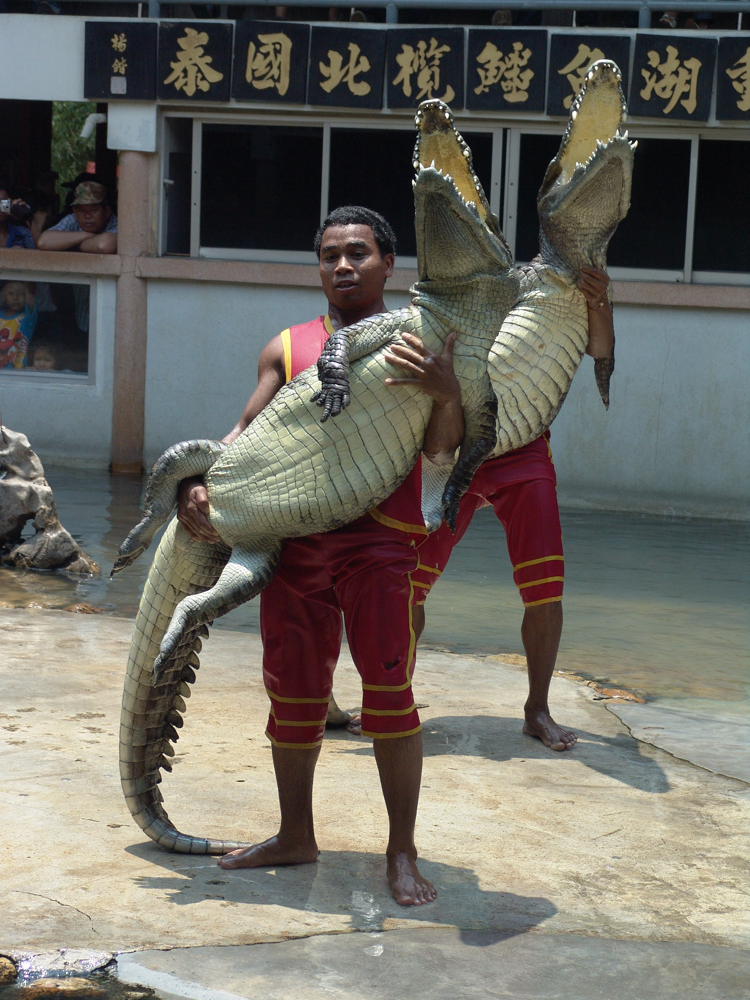 Crocodile Farm near Bangkok, April 2005, own tree, own work